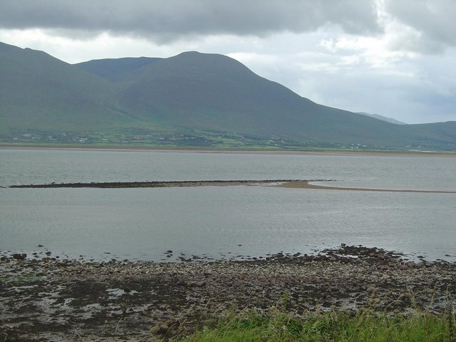 Black Rock,Tralee Bay Might not have got this if tide wasn't out. Would have been decent supplemental of Slieve Mish Mountains across the bay, anyway. Large peak is Baurtregaun at 851 metres